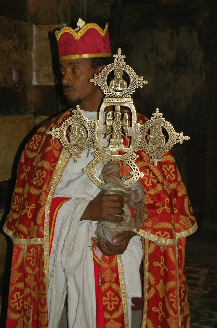 Priest of the Yimrehanna Kristos Church, taken in Lalibela, Semen Welo